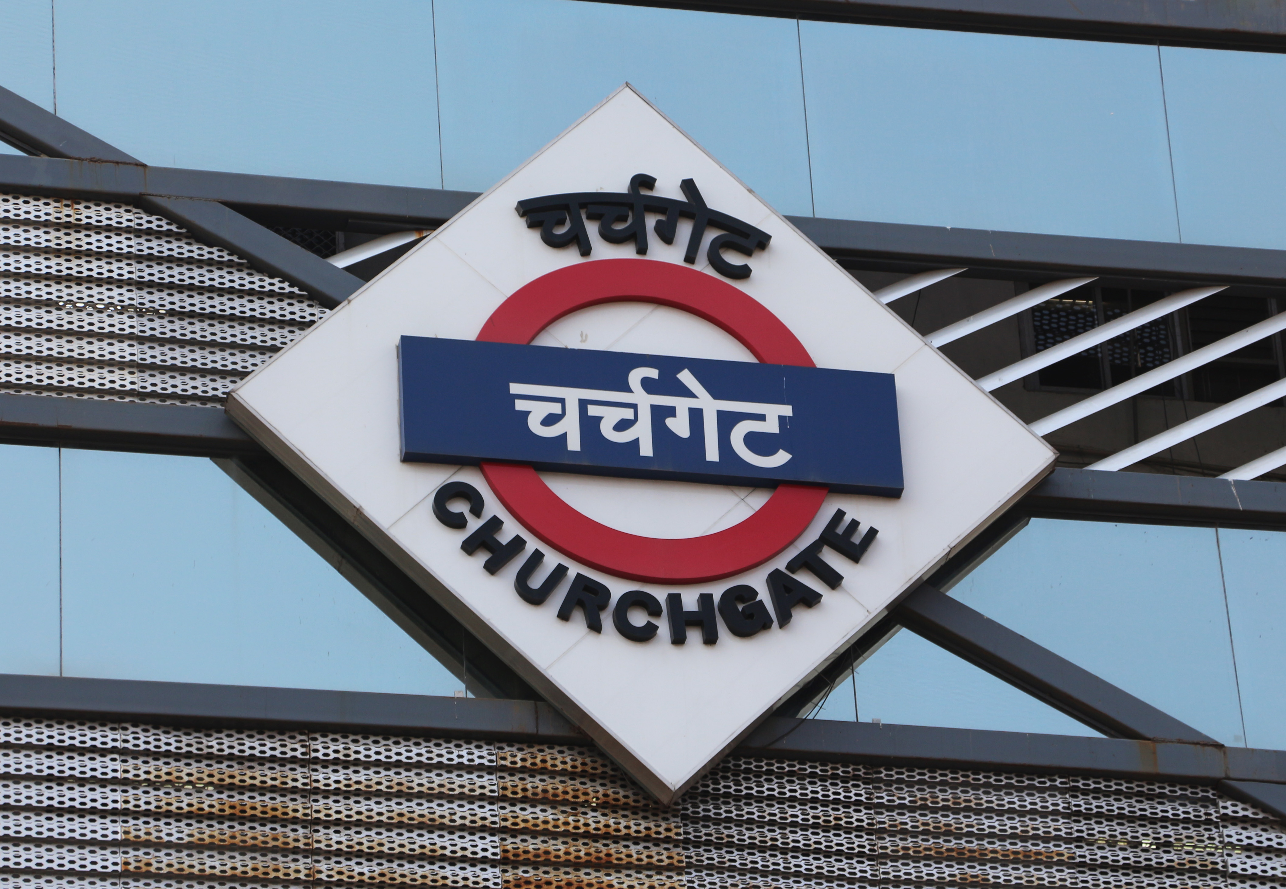 Sign of the Churchgate railway station, Mumbai, India